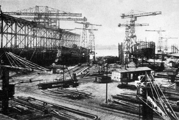 The shipyard Bremer Vulkan at the shore of the Weser river in Vegesack, Germany, around 1910.